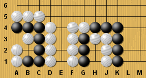 Examples of seki